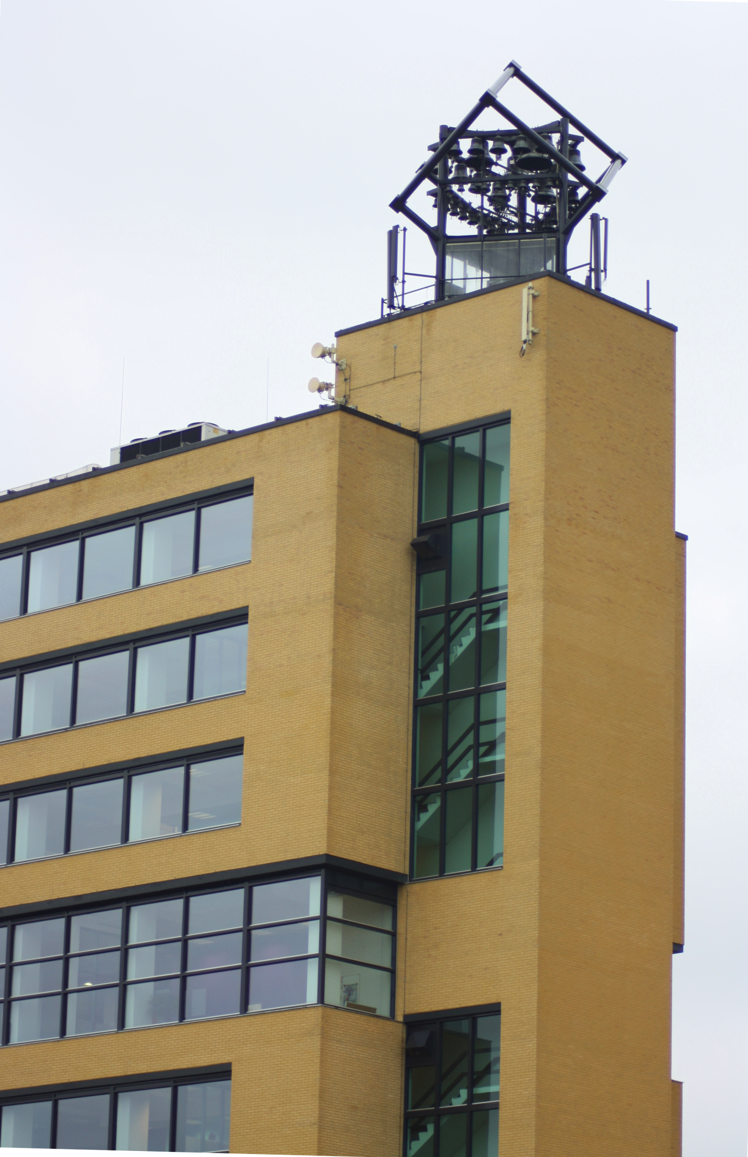 The new town hall of Brunssum.